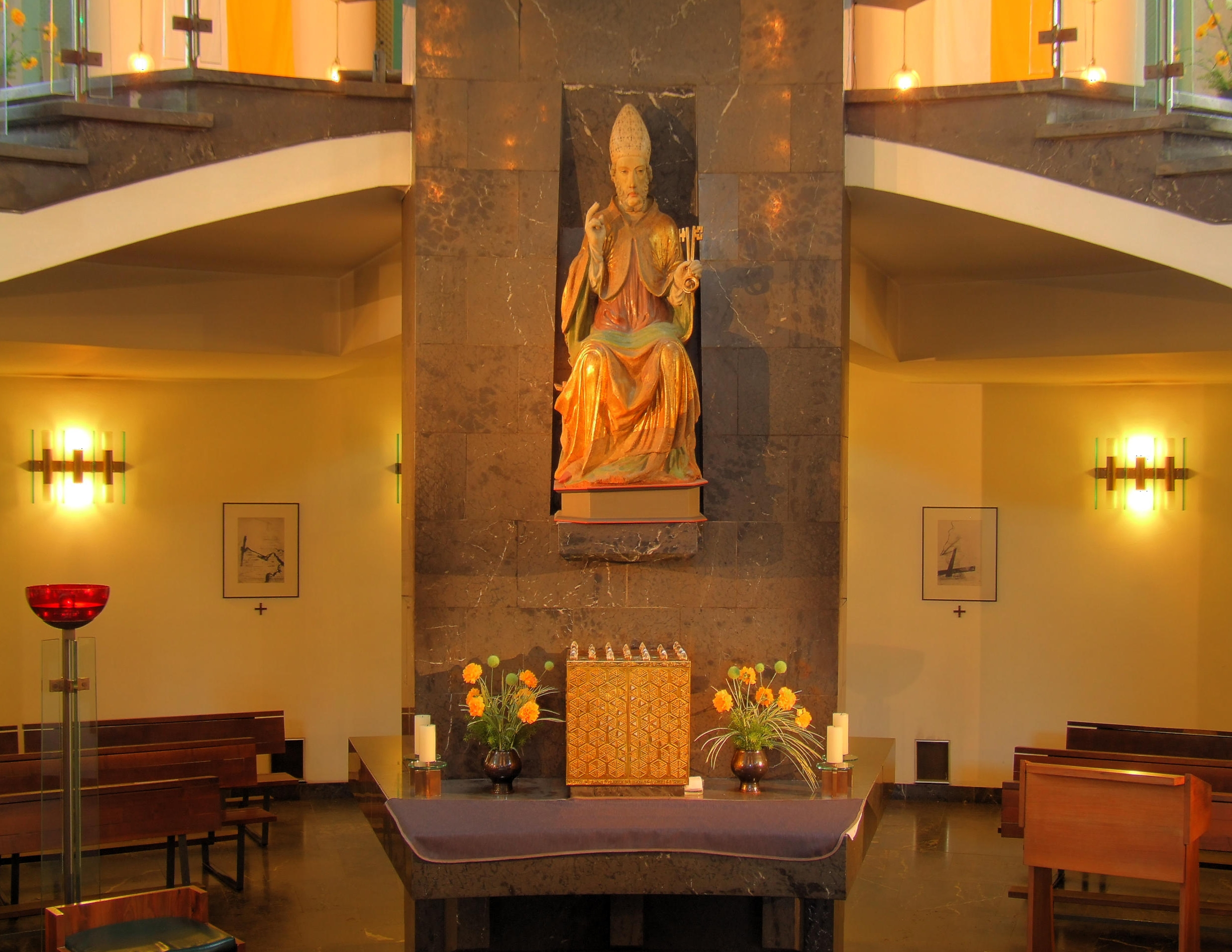 St. Hedwig's Cathedral in Berlin - altar